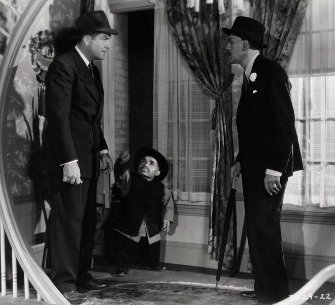 L. to R. : Grant Withers, Angelo Rossitto & Boris Karloff in Mr. Wong in Chinatown - publicity still (original image damaged, modified and cropped : see source)